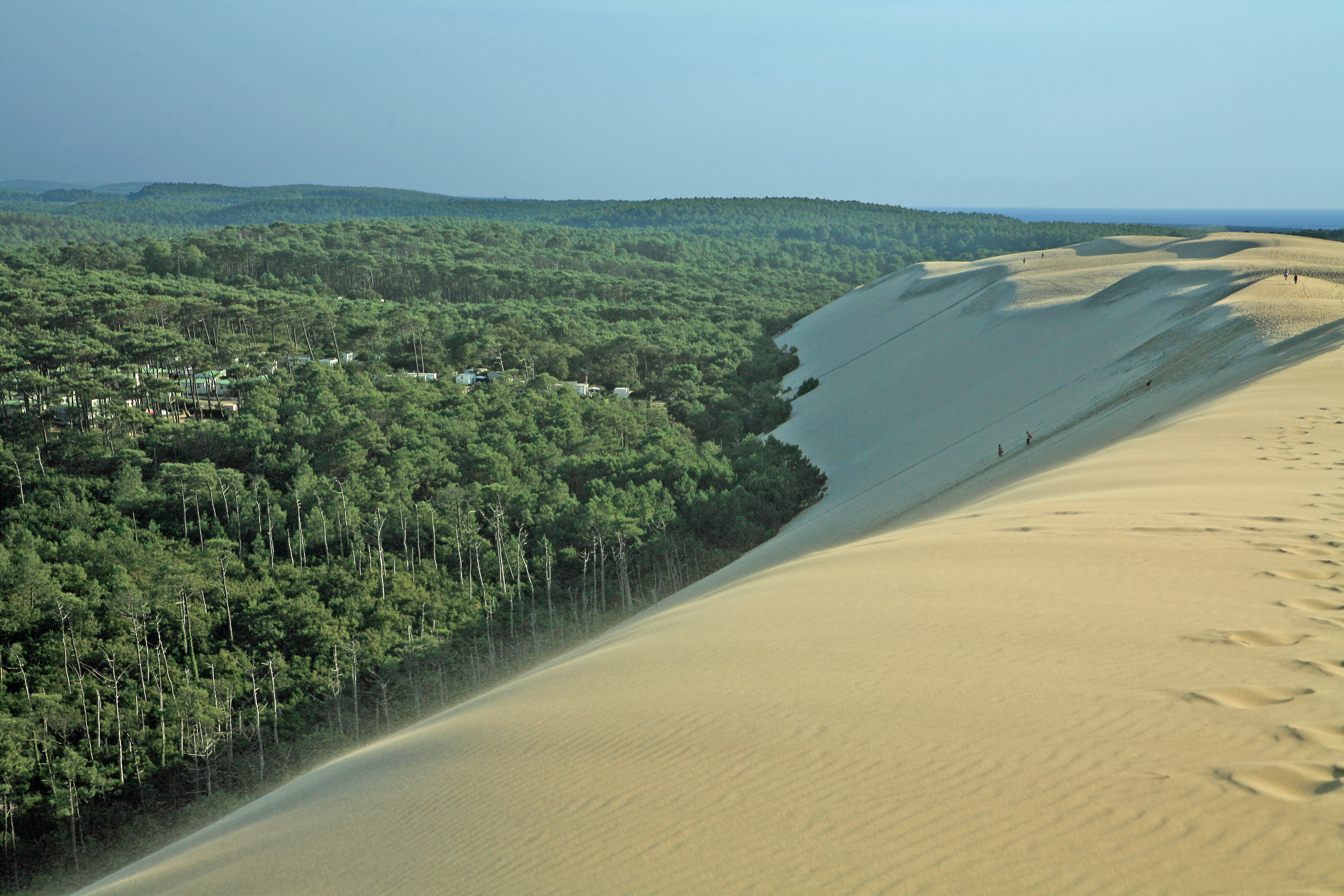 Dune du Pilat, a dune on the Atlantic coast near Archon, France. With the dimensions, height about 110 meters, width about 500 meters and length about 2.7 kilometers, it is the largest dune in Europe.